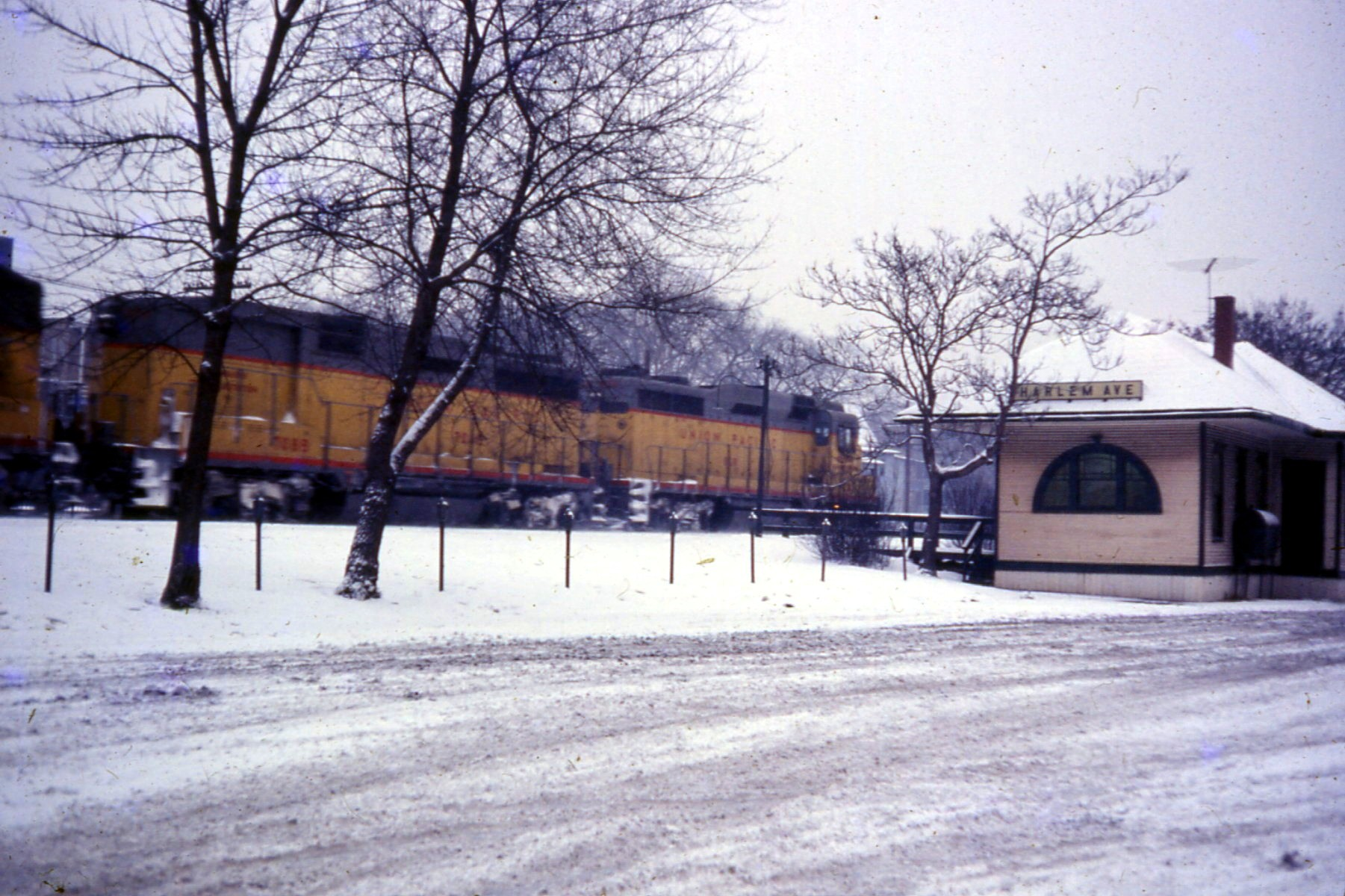 CGI was the Chicago -Grand Island run through train that continued on the Union Pacific to North Platte. Picture taken at Harlem Avenue (Metra)